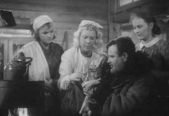 Tamara Nosova and Viktor Khokhriakov (center) in Stranitsy zhizni (1948)